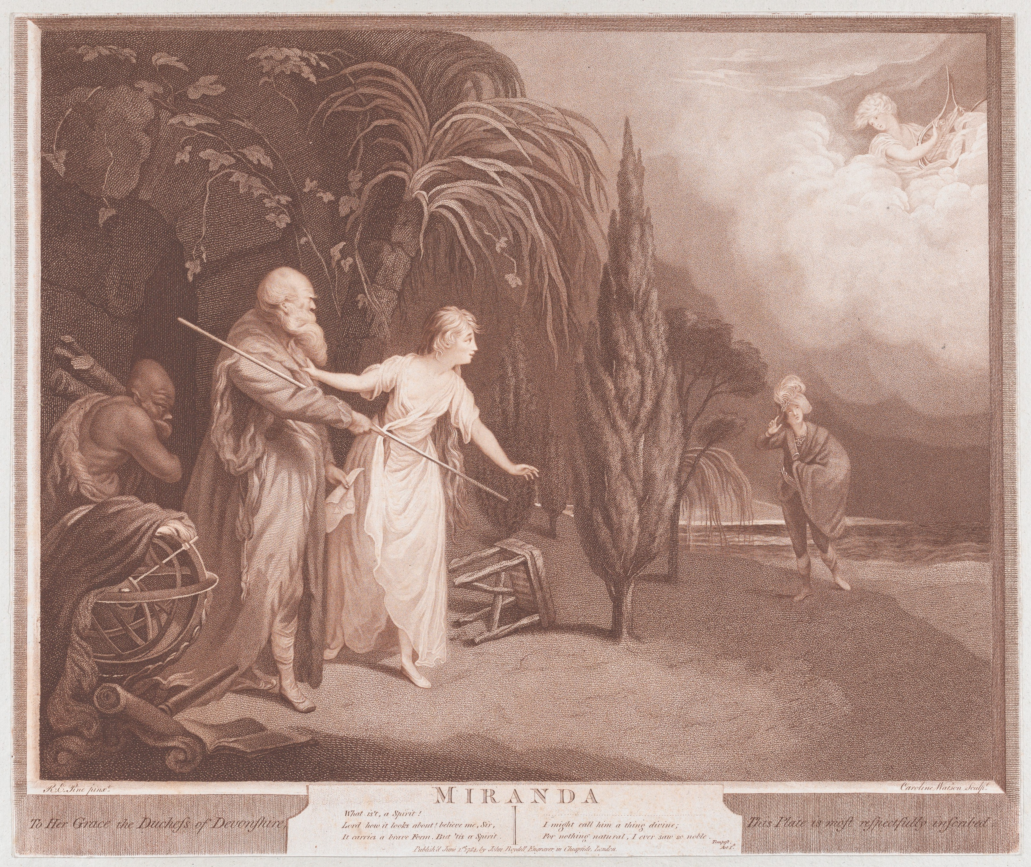 Print; Prints